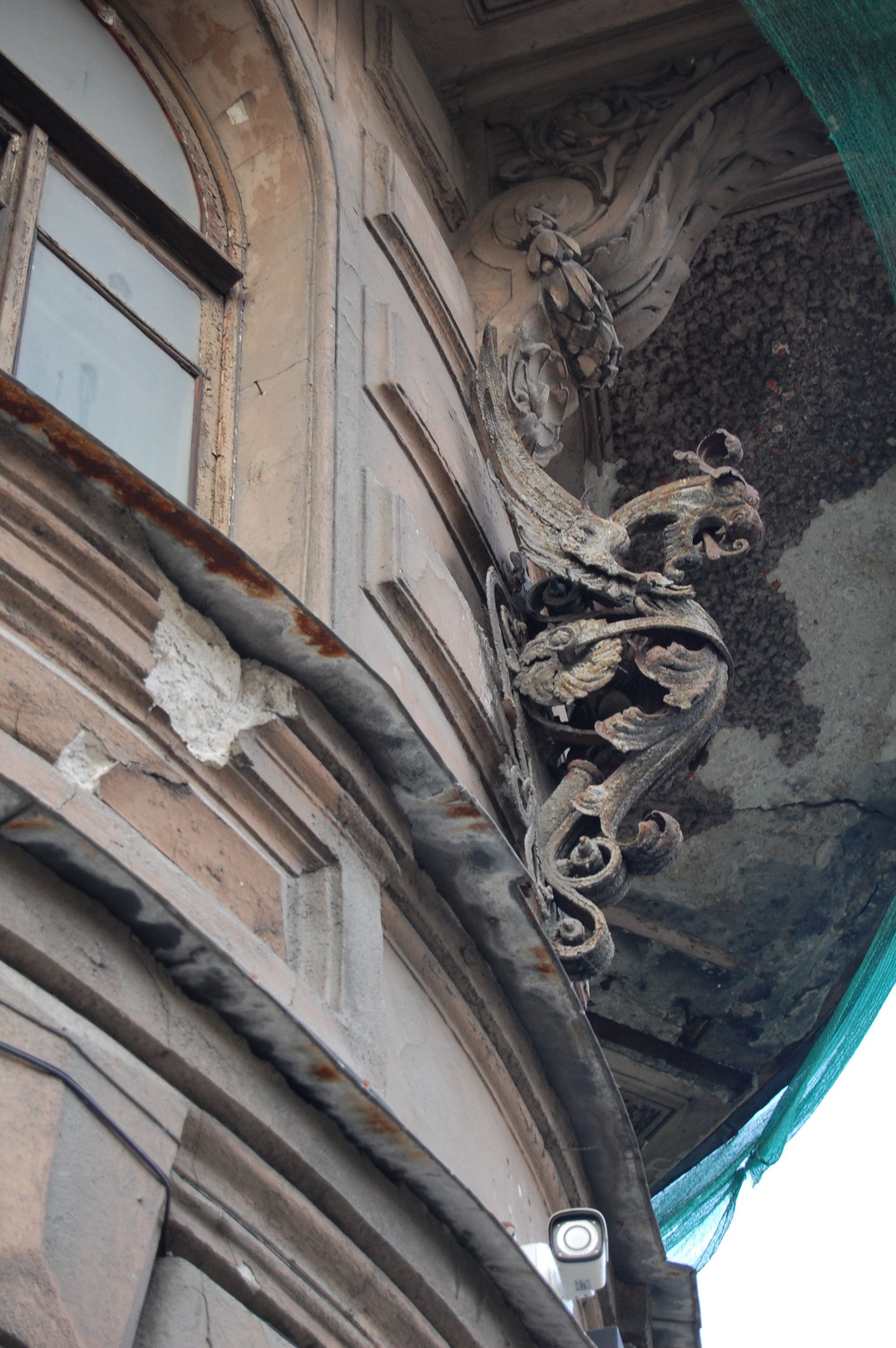 Profitable house of Astashev (1899-1900), Zverinskaya ulitsa 17B / per. Lyubansky, 1. The so-called "house with dragons." Arch. V.R. Kurzanov